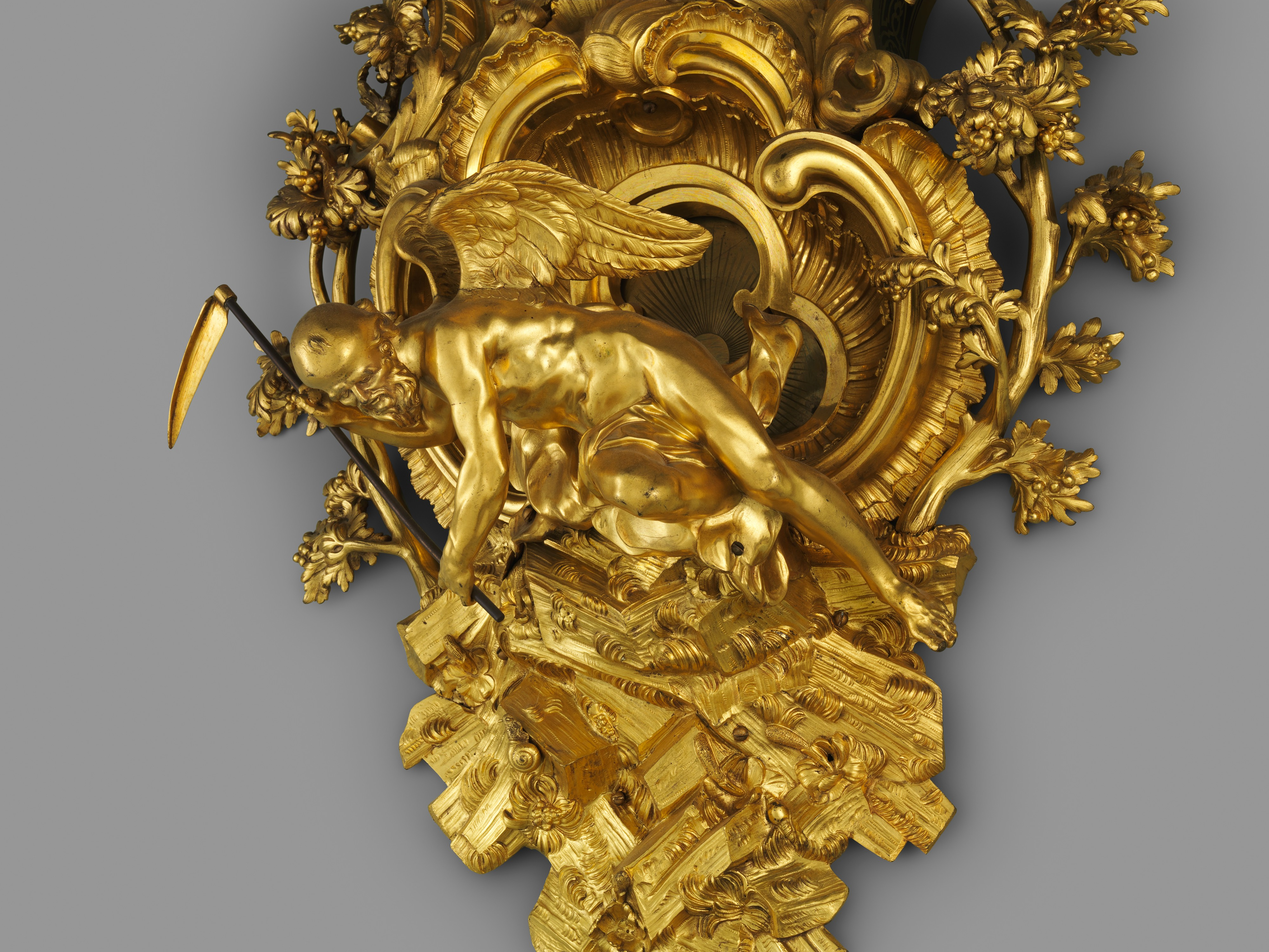 French, Paris; Wall clock; Horology